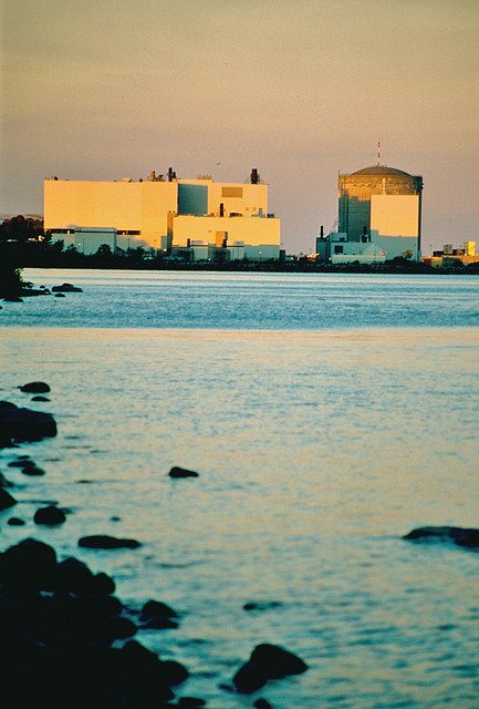 The Darlington Nuclear Generating Station, in Clarington, Ontario (Canada). Taken during sunset in June/2007 from Courtice beach. I used my Nikkor 70-210mm zoom for this, with a circular polarizer on the lens, and my tripod to keep it all steady.